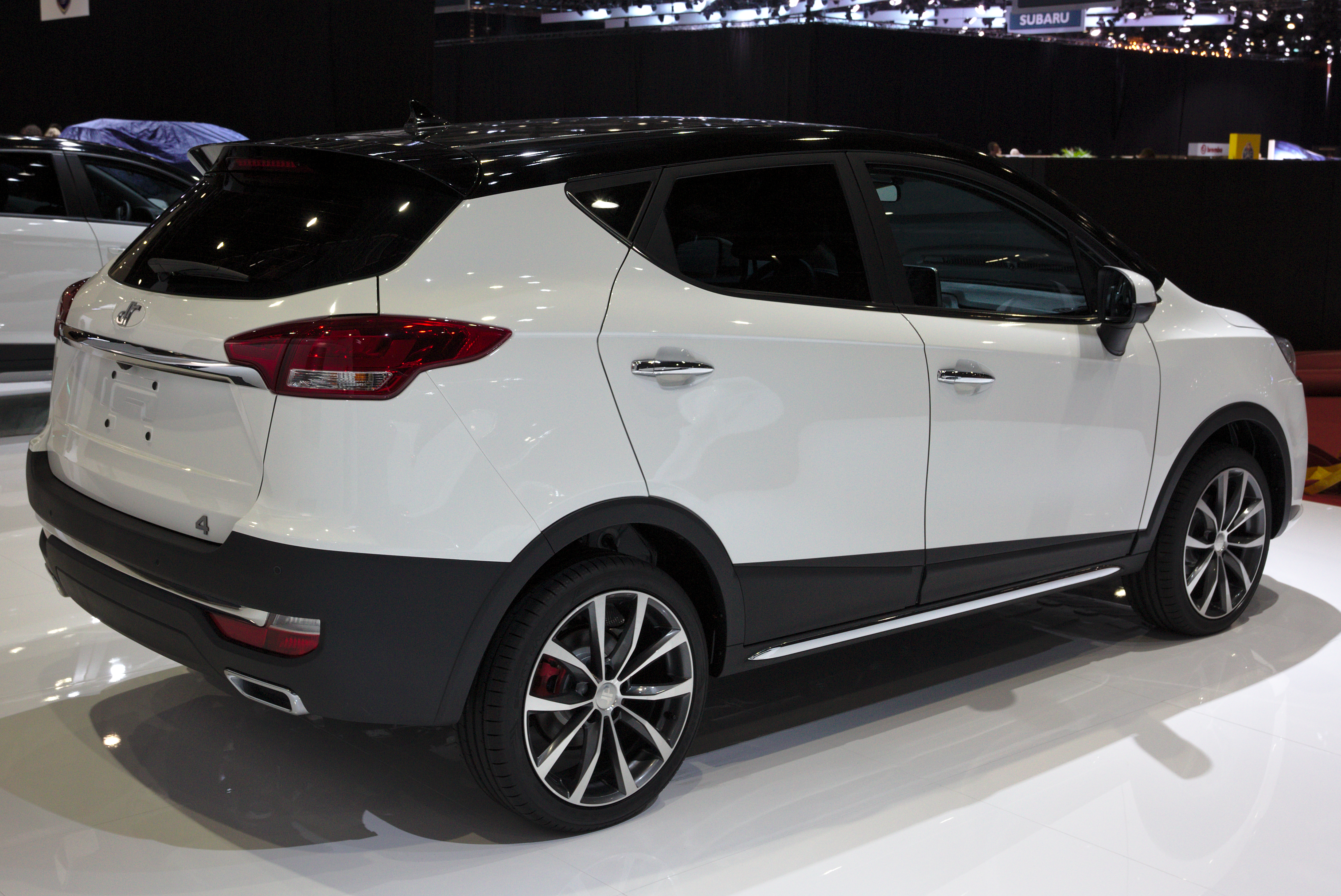 DR4 at Geneva Motor Show 2019